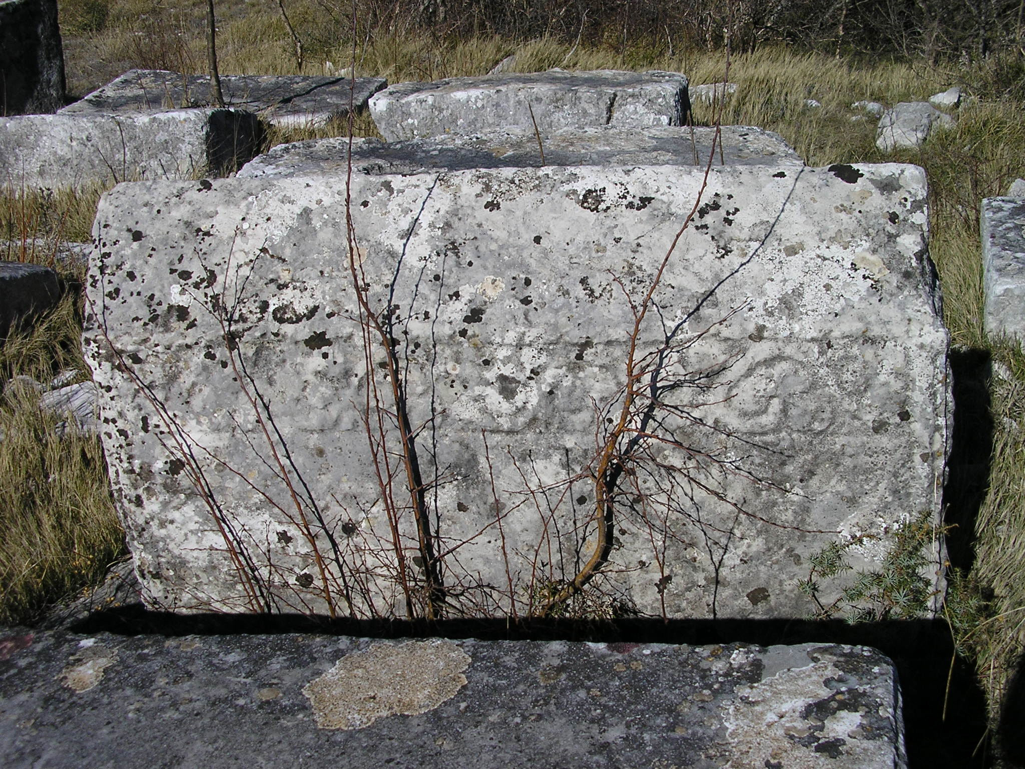 Međugorje necropolis near Glumina